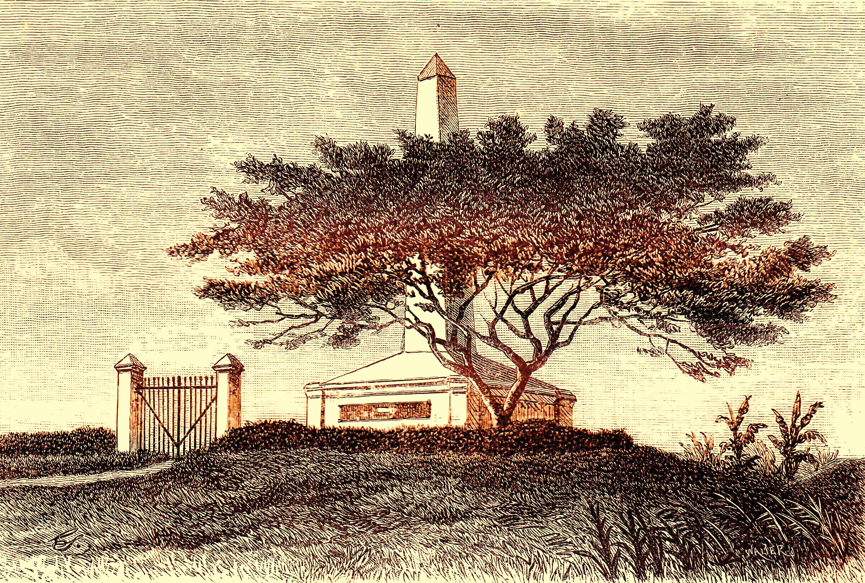 Gedenkteken te Goegoer Malintang, Sumatra